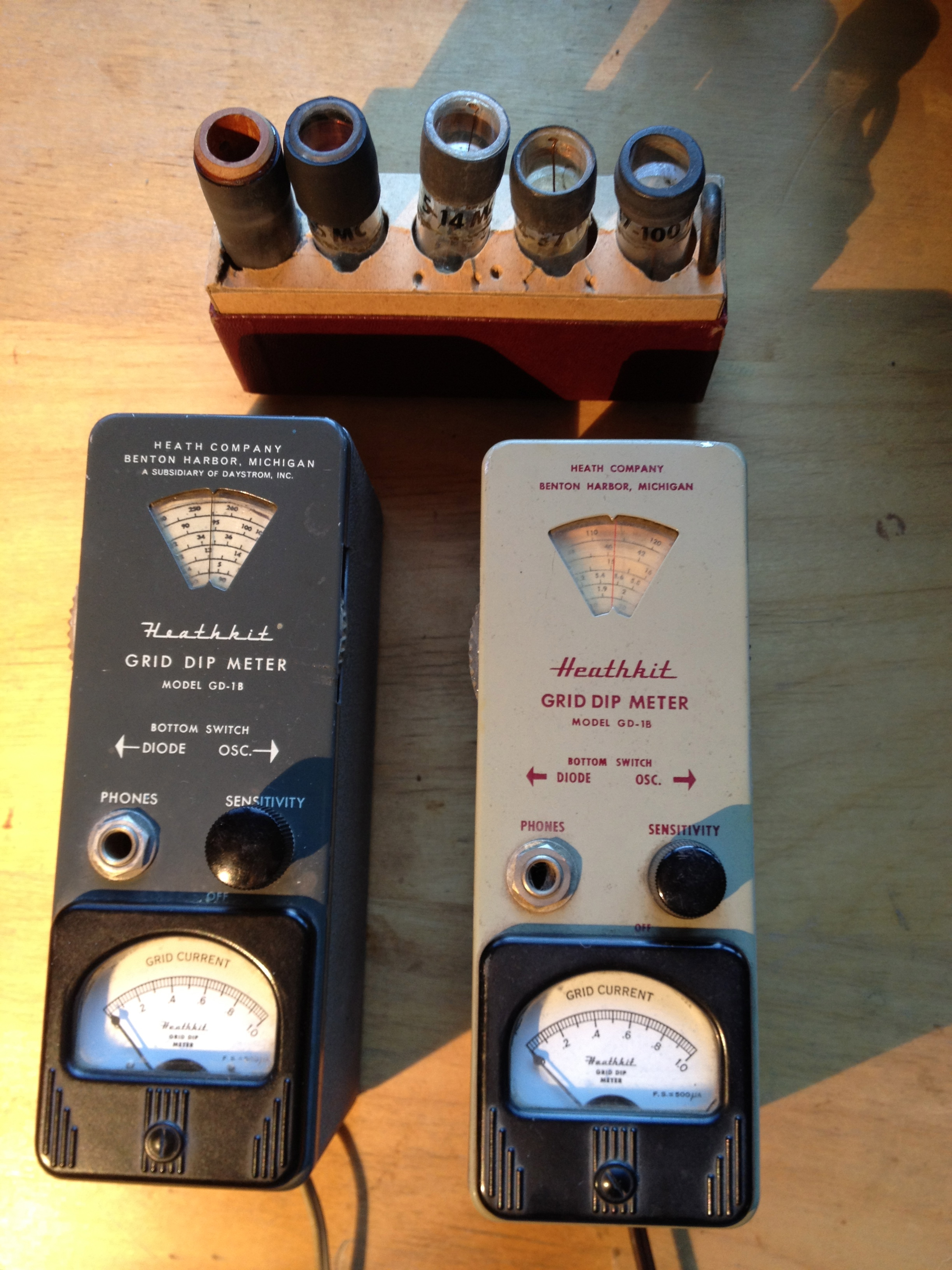 Two Heathkit Grid Dip Meters, model GD-1B, with a set of tuning coils.